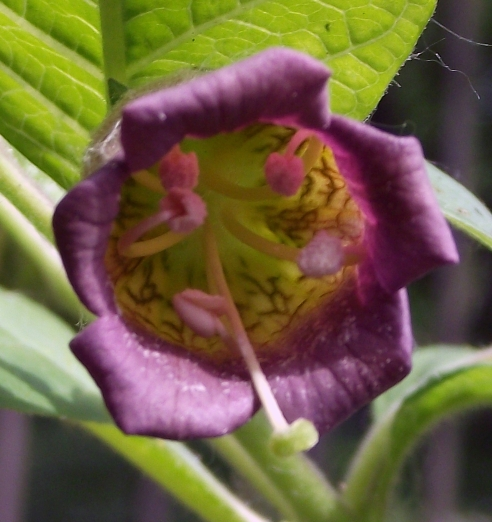 Atropa belladonna or Atropa bella-donna, commonly known as Belladonna, Devil's Berries, Death Cherries or Deadly Nightshade (Solanaceae), Flower - makro